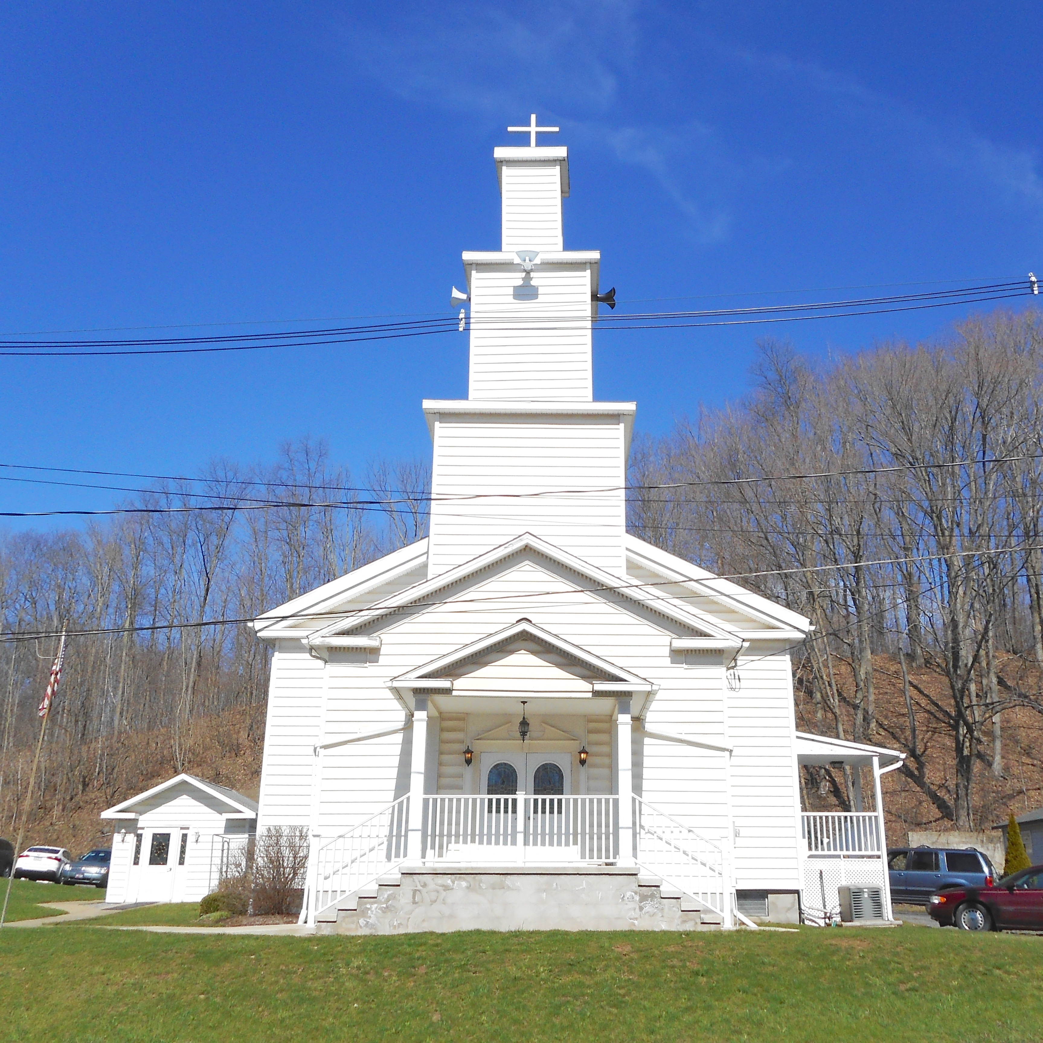 1st Christian Church of Alba, Bradford County, Pennsylvania